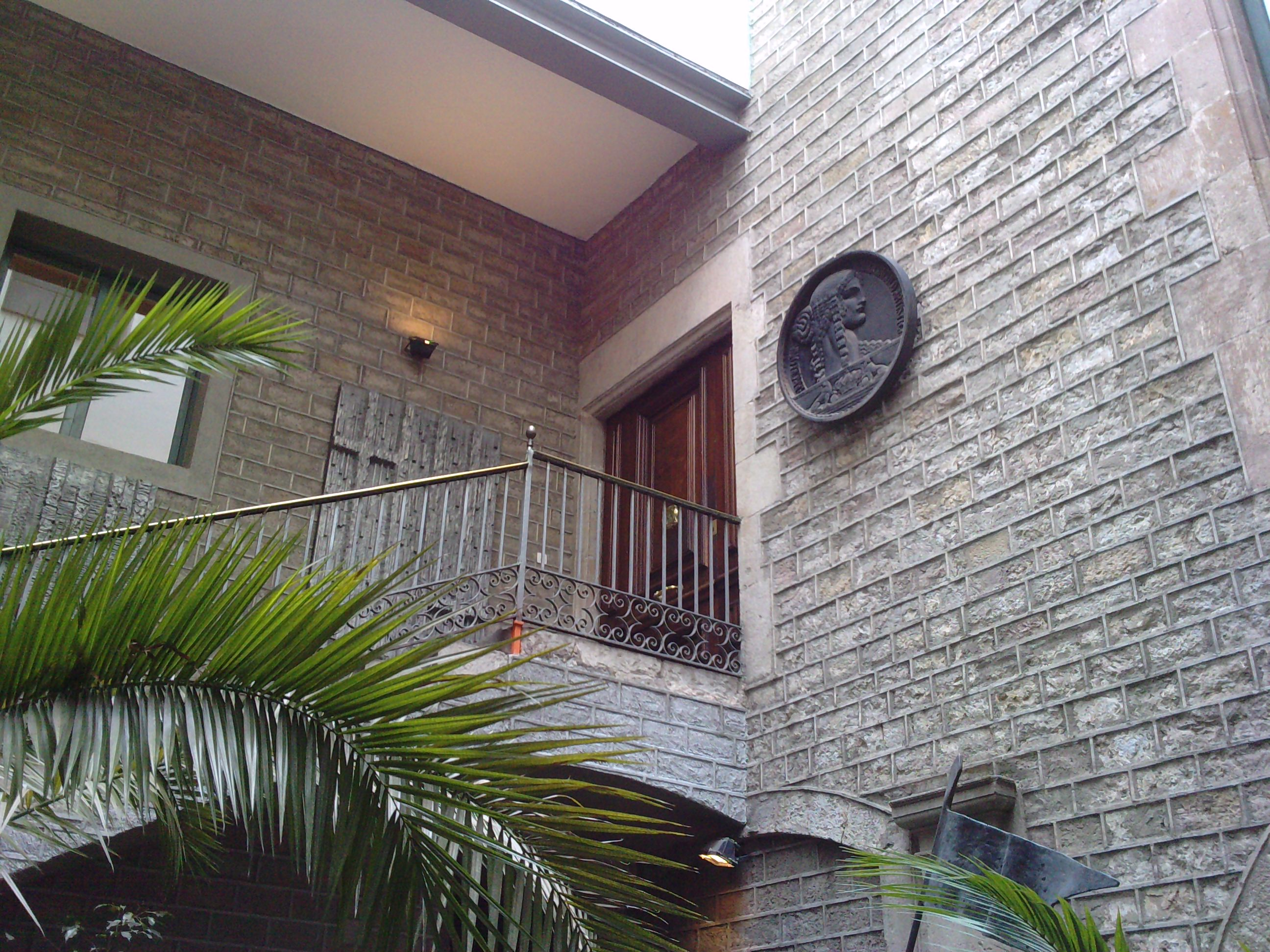 Entrance Door to the Reial Cercle Artístic of Barcelona